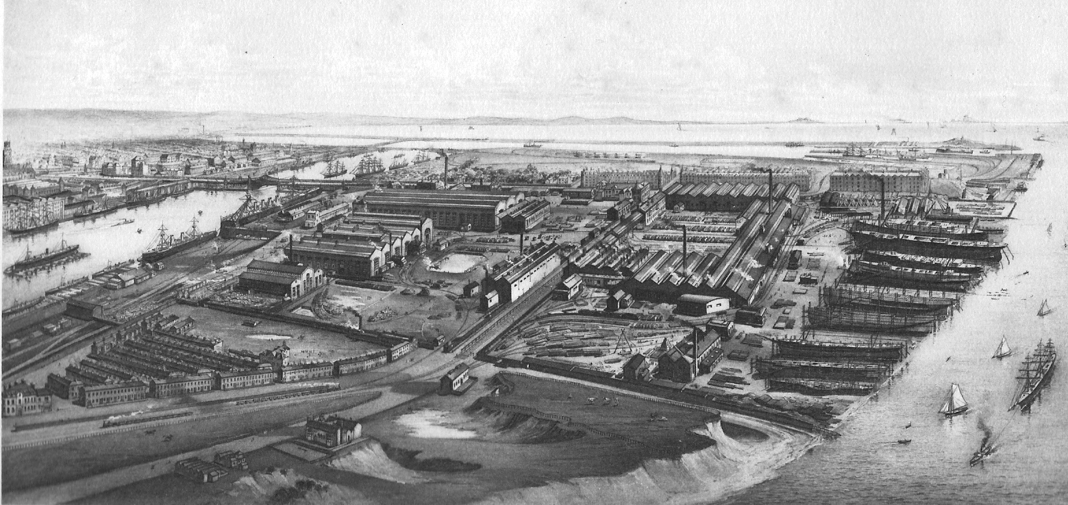 Barrow Shipbuilding Works, Barrow-in-Furness, Cumbria, England circa 1890